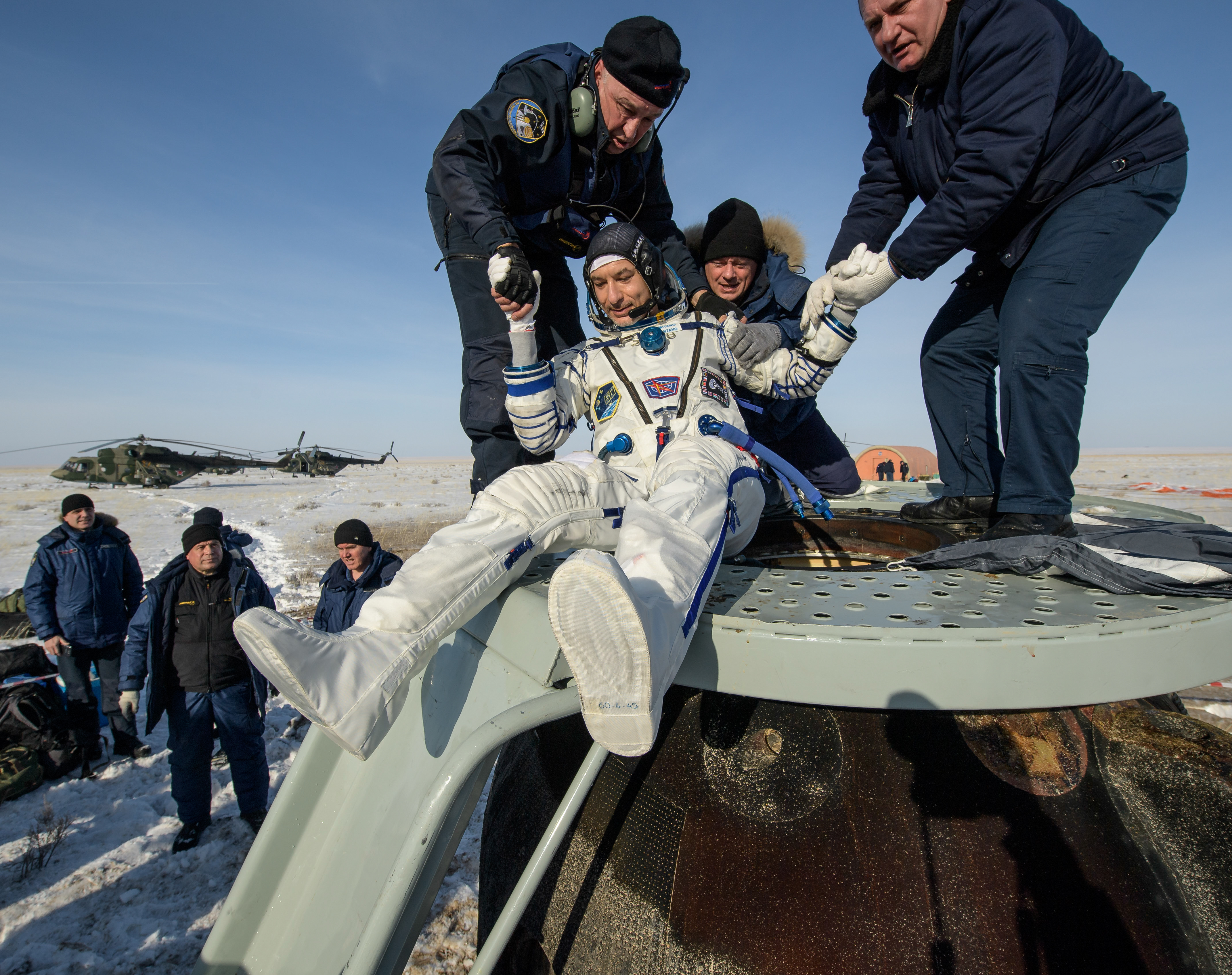 ESA astronaut Luca Parmitano is helped out of the Soyuz MS-13 spacecraft just minutes after he, NASA astronaut Christina Koch, and Roscosmos cosmonaut Alexander Skvortsov landed in a remote area near the town of Zhezkazgan, Kazakhstan on Thursday, Feb. 6, 2020. Koch returned to Earth after logging 328 days in space --- the longest spaceflight in history by a woman --- as a member of Expeditions 59-60-61 on the International Space Station. Skvortsov and Parmitano returned after 201 days in space where they served as Expedition 60-61 crew members onboard the station.